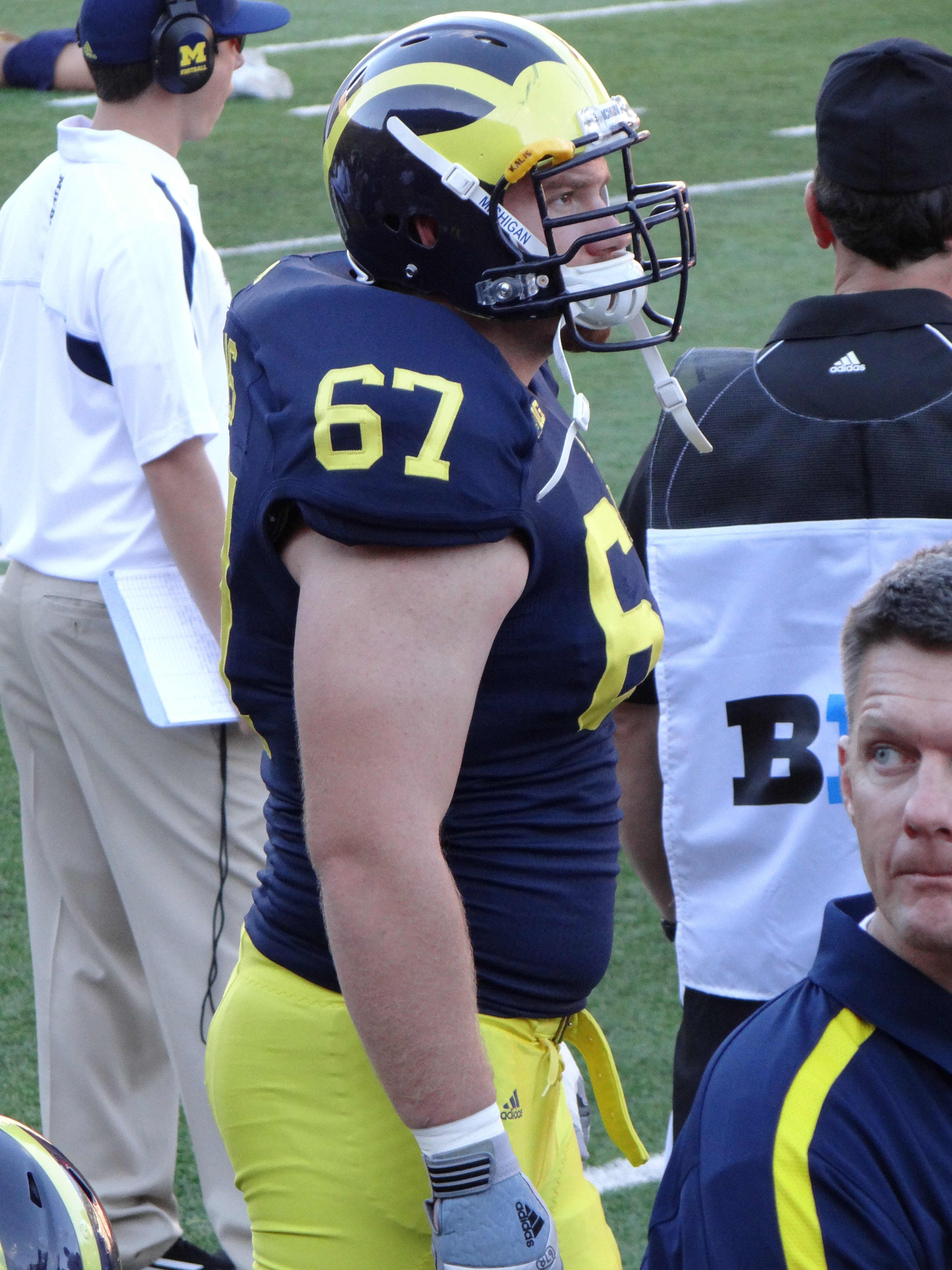 Kyle Kalis on sidelines against UMass